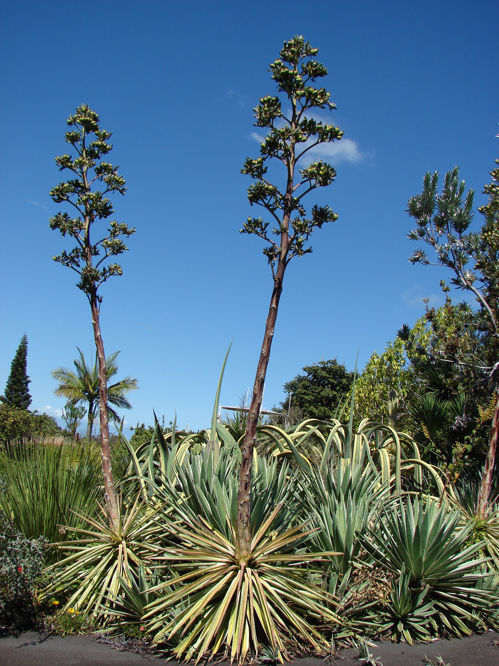 Agave vivipara (habit). Location: Maui, Enchanting Floral Gardens of Kula